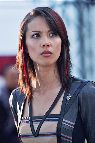 Sorbo is back as Captain Dylan Hunt, who commands the Andromeda Ascendant, a sentient warship. At the beginning of the series Dylan and his ship were trapped in a black hole. When pulled free 300 years later, he finds the world he knew destroyed by a violent intergalatic war. Dylan and his new crew set out to restore the Commonwealth, which was plunged into three centuries of darkness and chaos. His mission of reconstruction had nearly come to fruition when a terrible betrayal, by a member of his own crew, fragmented the rebuilt Commonwealth. In season four, Dylan and crew struggle to rebuild the fragile Commonwealth, while hunting its enemies.